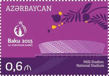 Coming soon - First European Games. Baku 2015.